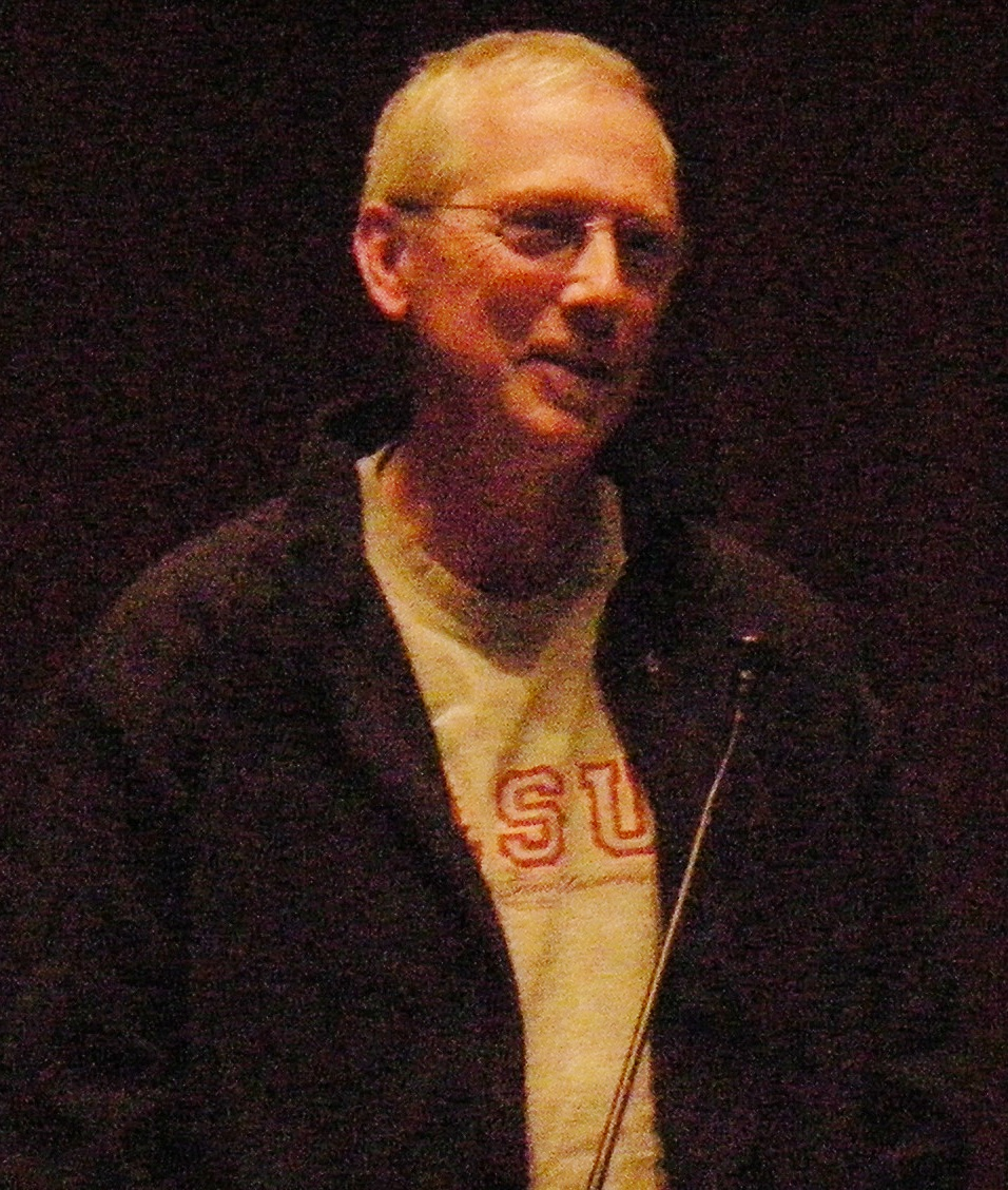 Doug Yule (formerly of the Velvet Underground) appearing at the Seattle Central Library with Richie Unterberger (author of White Light/White Heat: The Velvet Underground Day-By-Day, 2009, not shown).